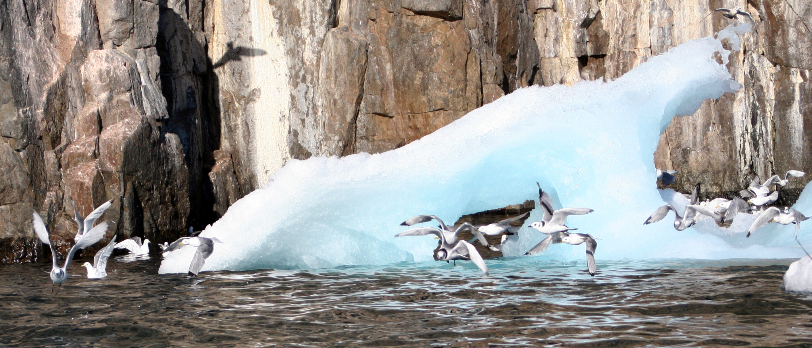 Rissa tridactyla are nesting at Coburg Island in Jones Sound